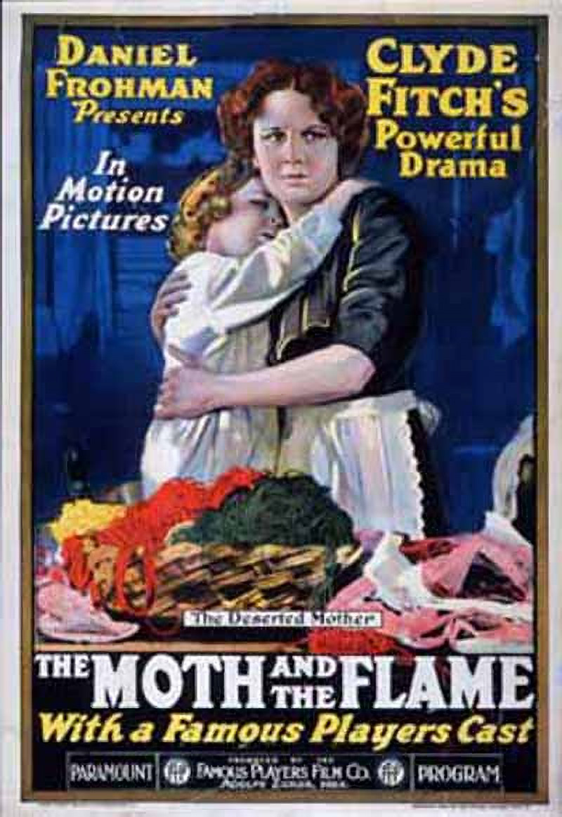 Press sheet for the American film The Moth and the Flame (1915) with child actor Maurice Steuart and Irene Howley.